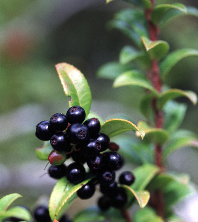 Vaccinium ovatum fruit at Humboldt Bay National Wildlife Refuge Complex, California, USA